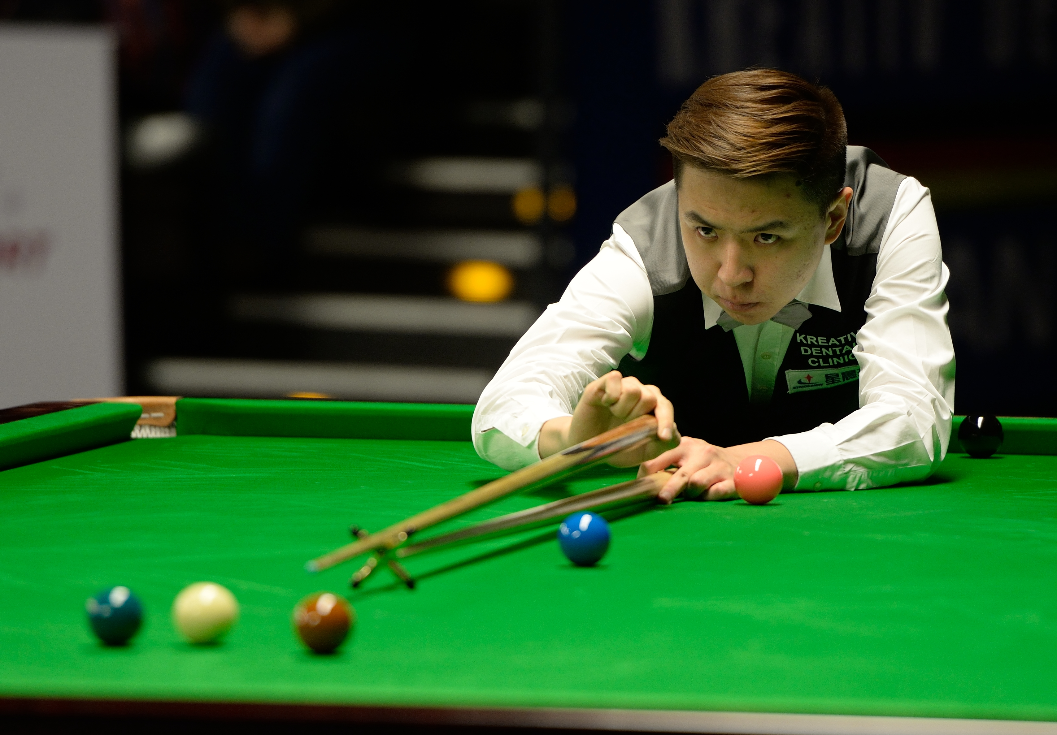 Picture taken in Berlin during the Snooker German Masters in 2015. Xiao Guodong.